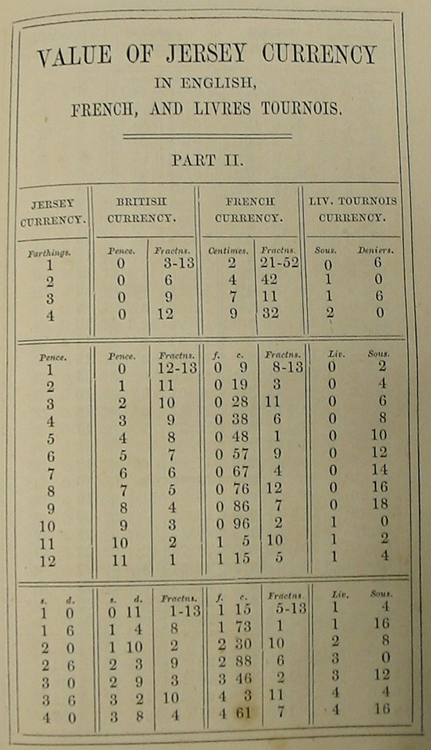 Page from booklet Comparative Value of English, Jersey, French, and Livres Tournois Currency, to which is added the Value of Rentes in Jersey, rendered in four currencies by C.A. published Jersey 1854